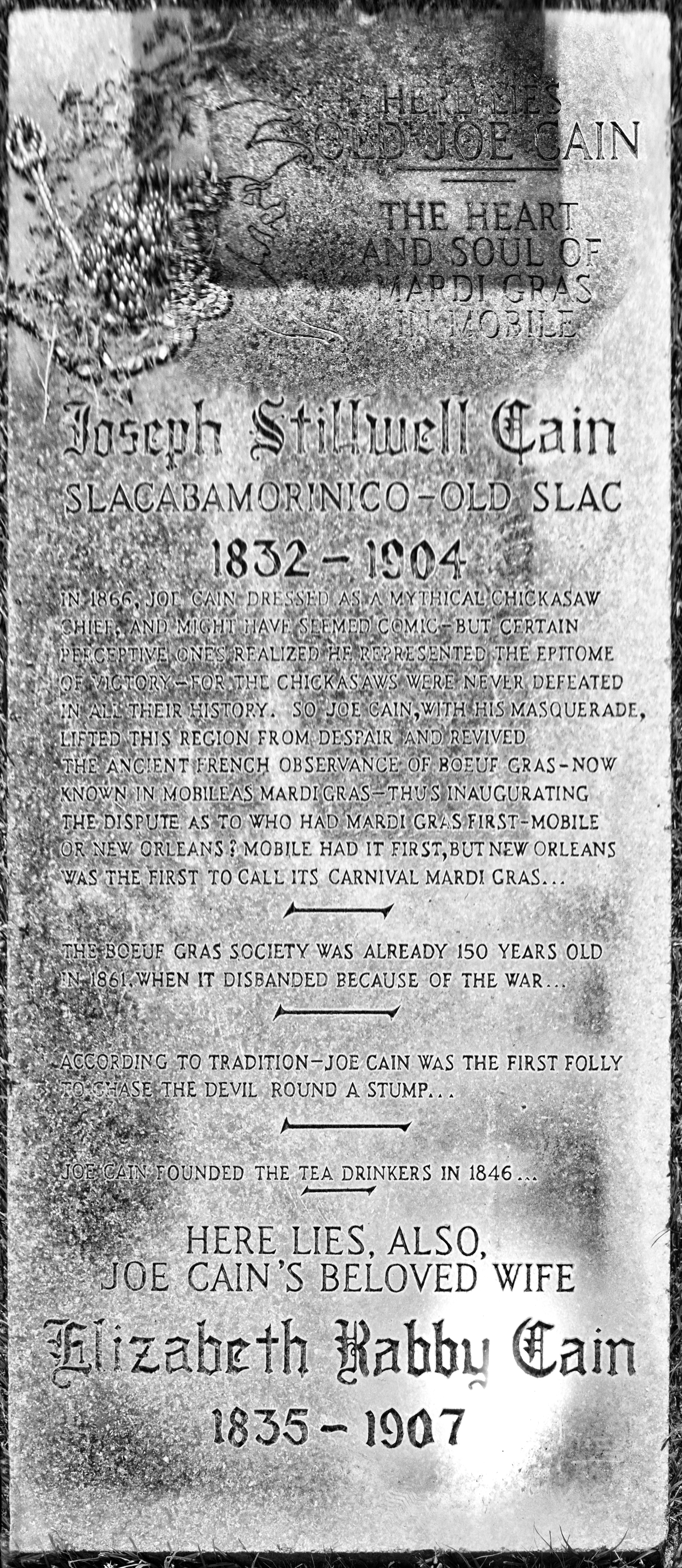 The heart and soul of Mardi Gras in Mobile. Joseph Stillwell Cain In 1866, Joe Cain dressed as a mythical Chickasaw Chief, and might have seemed comic - but certain perceptive ones realized he represented the epitome of victory - for the Chickasaws were never defeated in all their history. So Joe Cain, with his masquerade, lifted this region from despair and revived the ancient French observance of Boeuf Gras - now known in Mobile as Mardi Gras - thus inaugurating the dispute as to who had Mardi Gras first - Mobile or New Orleans? Mobile had it first, but New Orleans was the first to call its carnival Mardi Gras... The Boeuf Gras society was already 150 years old in 1861, when it disbanded because of the war... According to tradition - Joe Cain was the first folly to chase the devil round a stump... Joe Cain founded the Tea Drinkers in 1846... Note: The supposed "dispute" is moot, since actually Mardi Gras was hundreds of years old before it was brought to the New World in the Colonial era. Olympus E-P1 17mm ZD f/2.8 ISO-200